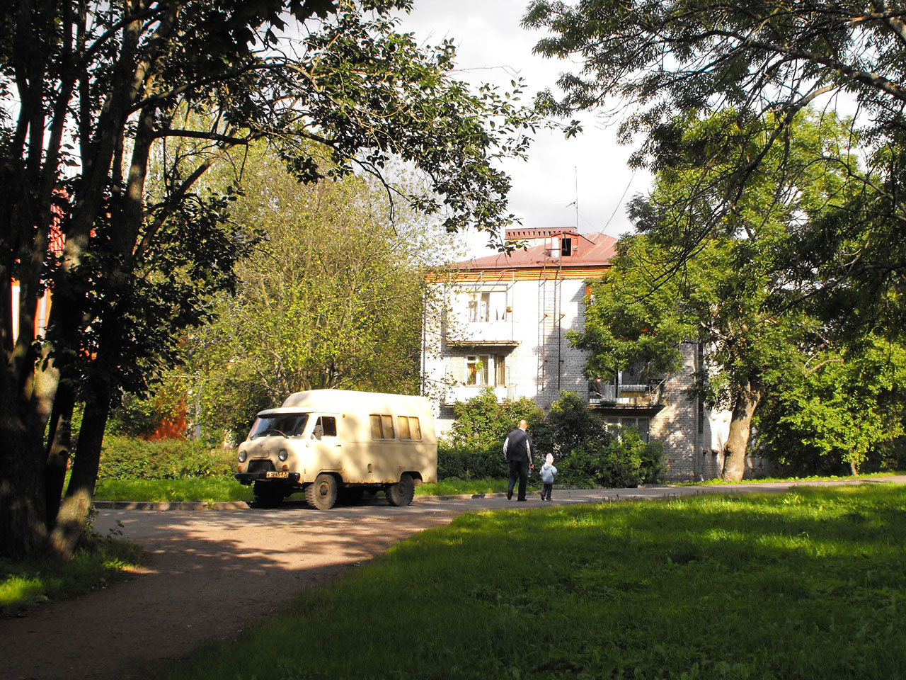 "New Peterhof" in Russia